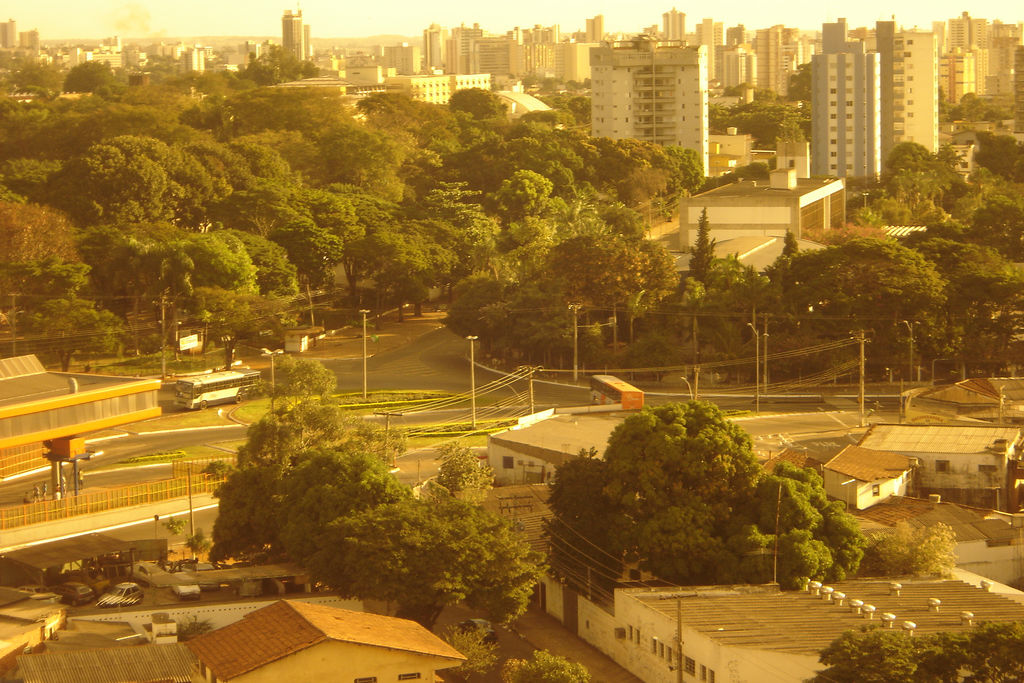 photoshop free :B